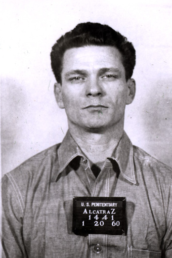 Frank Morris mugshot from Alcatraz.